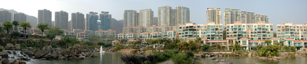 A view of Discovery Bay, Hong Kong (near Siena and Central Park).